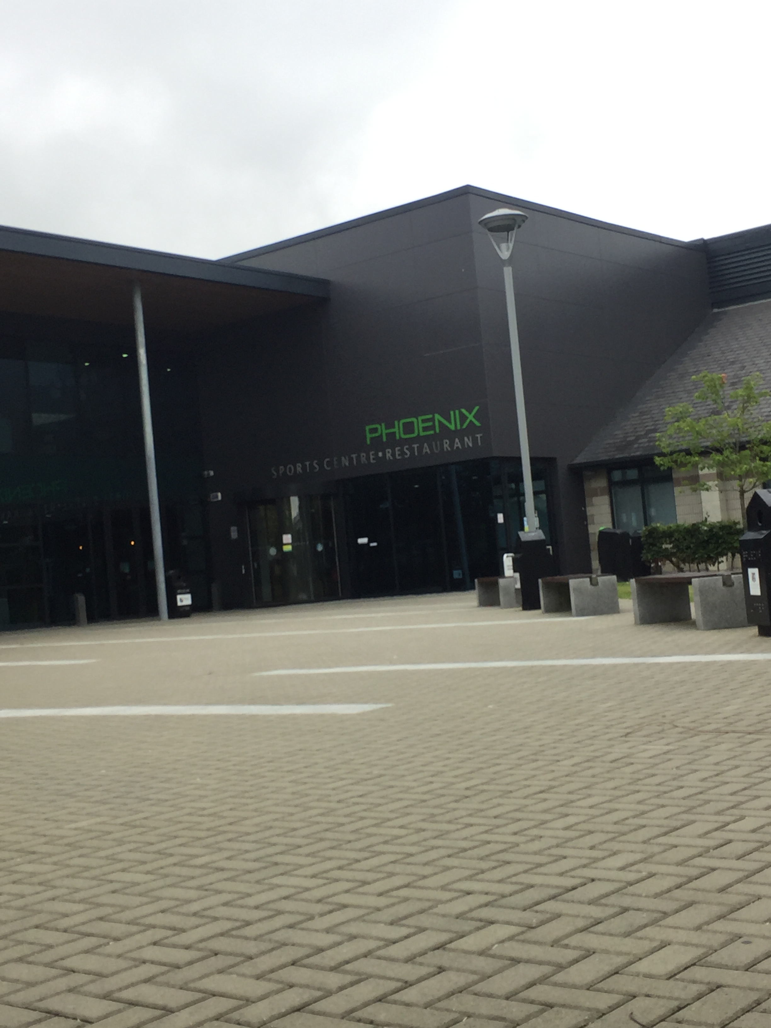 Sports center on campus provides a free gym and many other services to Maynooth students